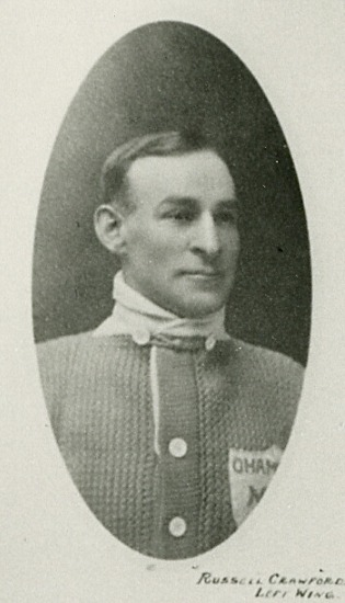 Russell "Rusty" Crawford of the Toronto Arenas hockey club ca. 1917–1918